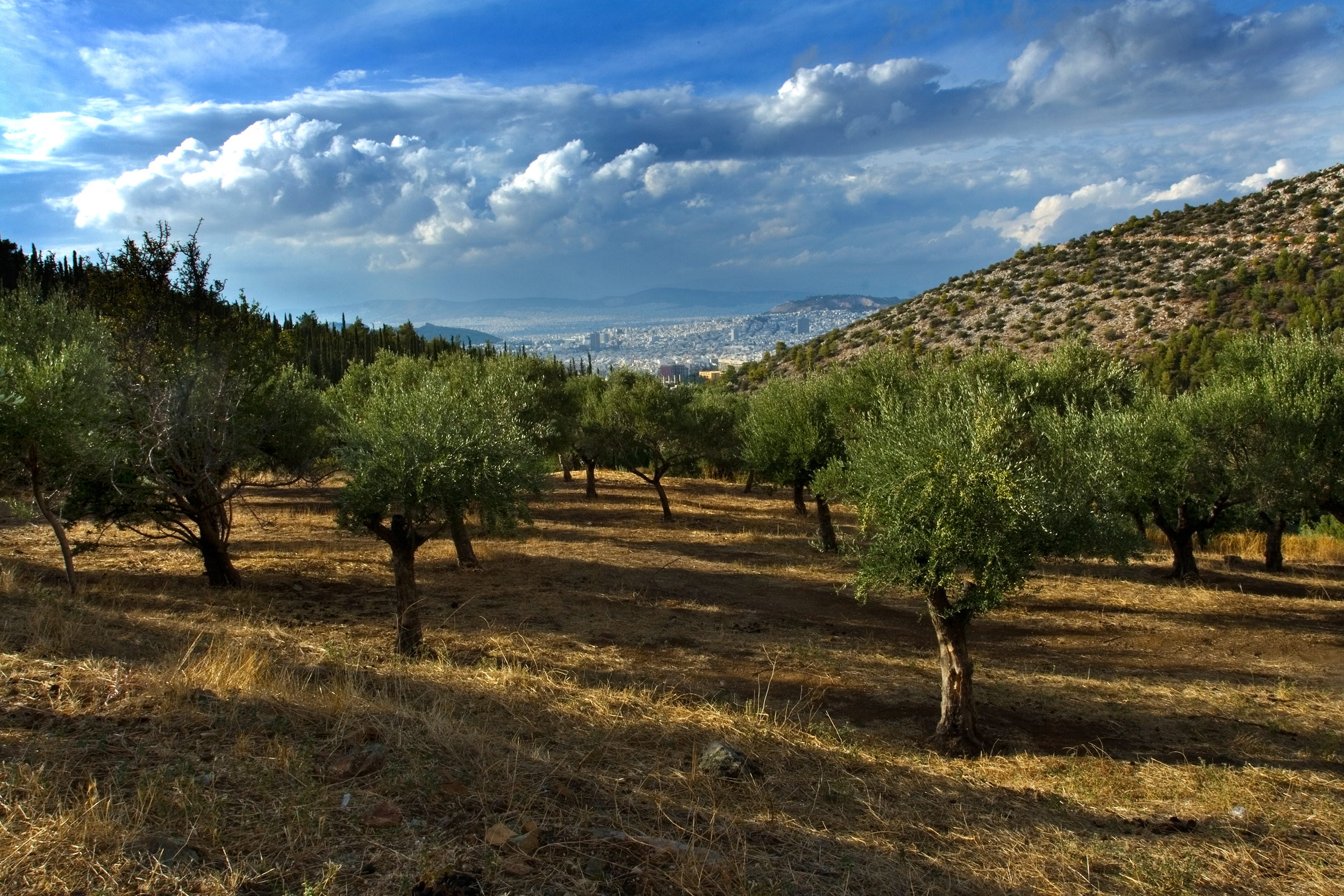 This is a photography of Natura 2000 protected area with ID GR3000006